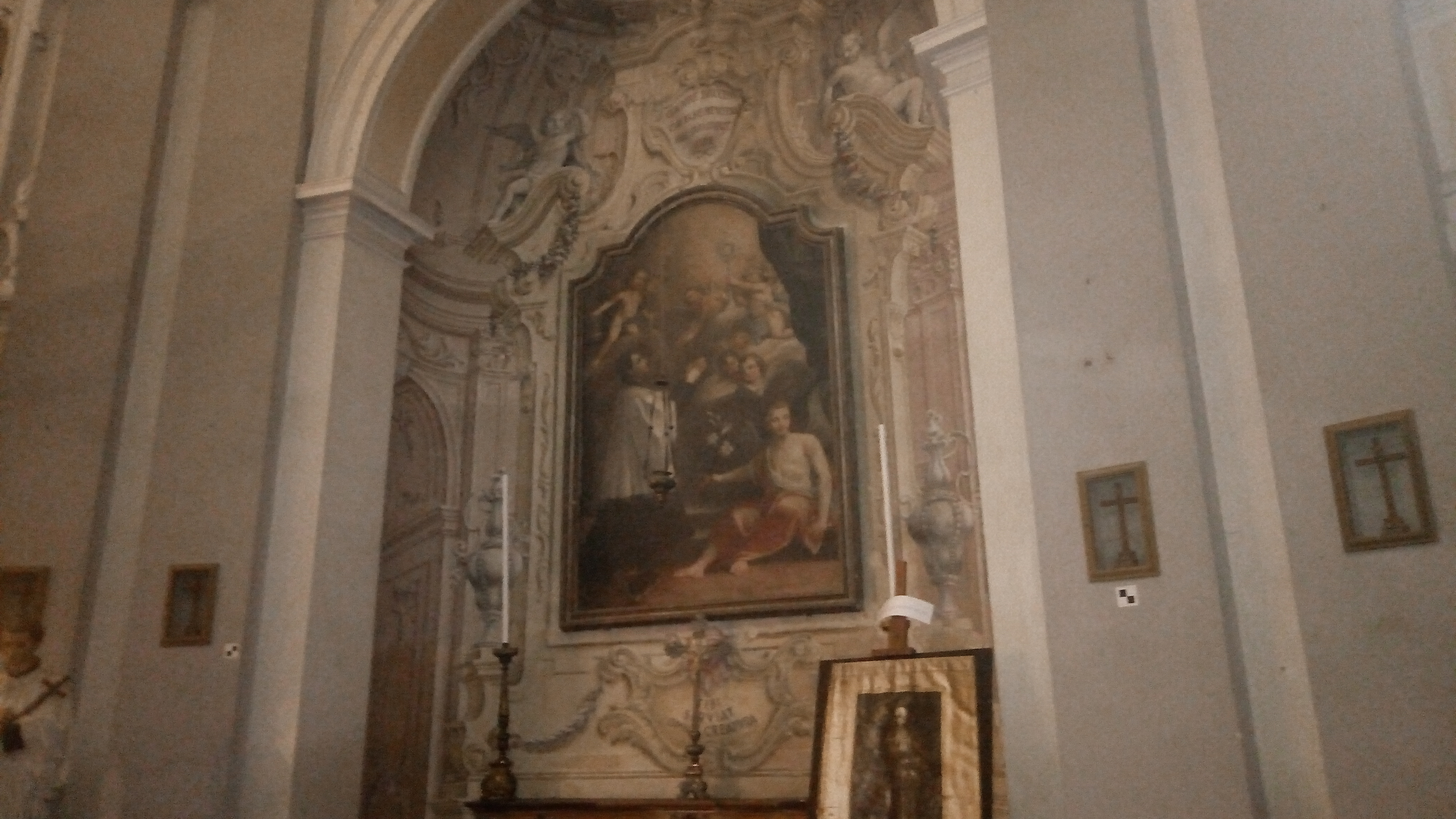 Oratorio del riscatto curch